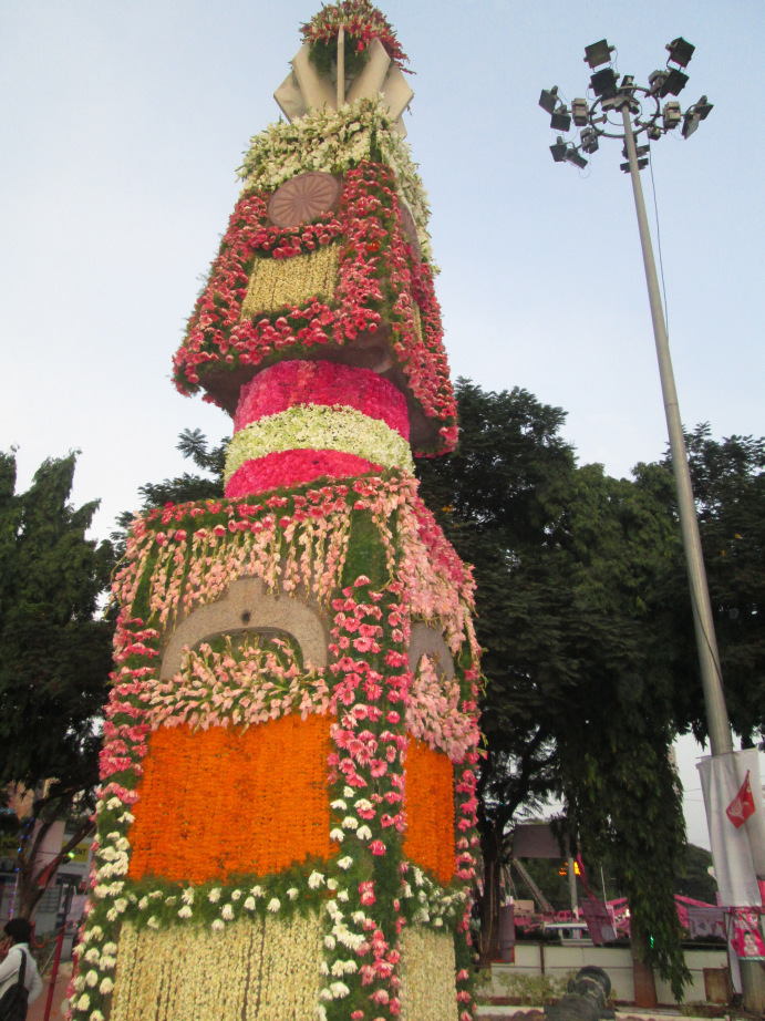 Floral decorations at Martyrs Memorial, Gun Park